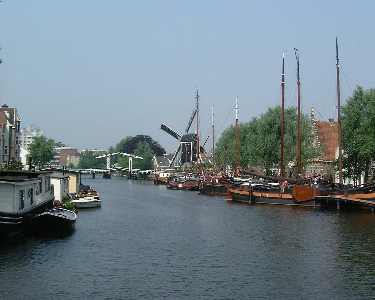 The canal Galgewater, Leiden, The NetherlandsThe canal Galgewater in Leiden